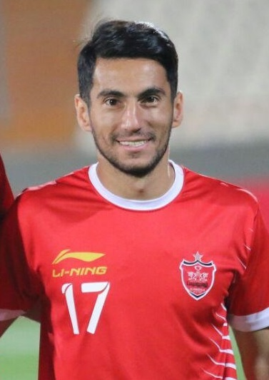 Al Sadd and Persepolis FC training in Azadi Stadium. 2019 AFC Champions League.